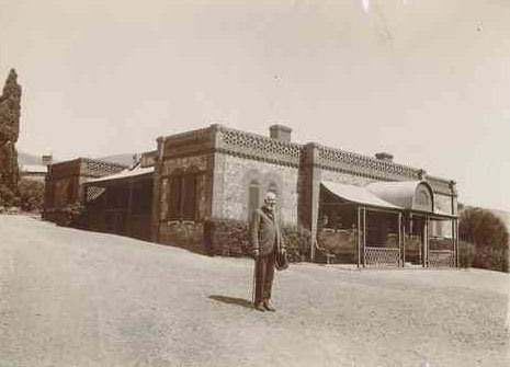 Sir Samuel Davenport (1818–1906) at Beaumont House.